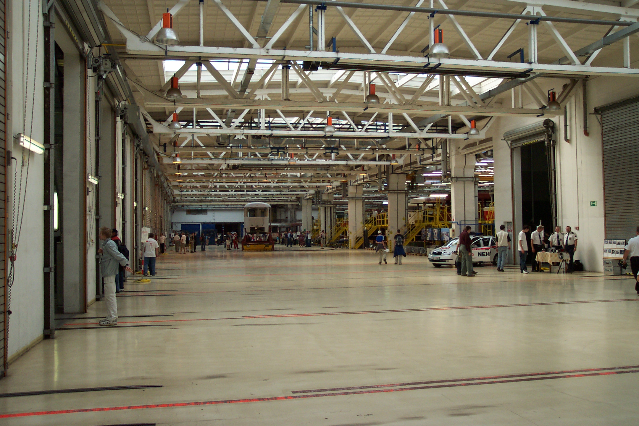 Prague tram central Works - ÚD DP v Praze